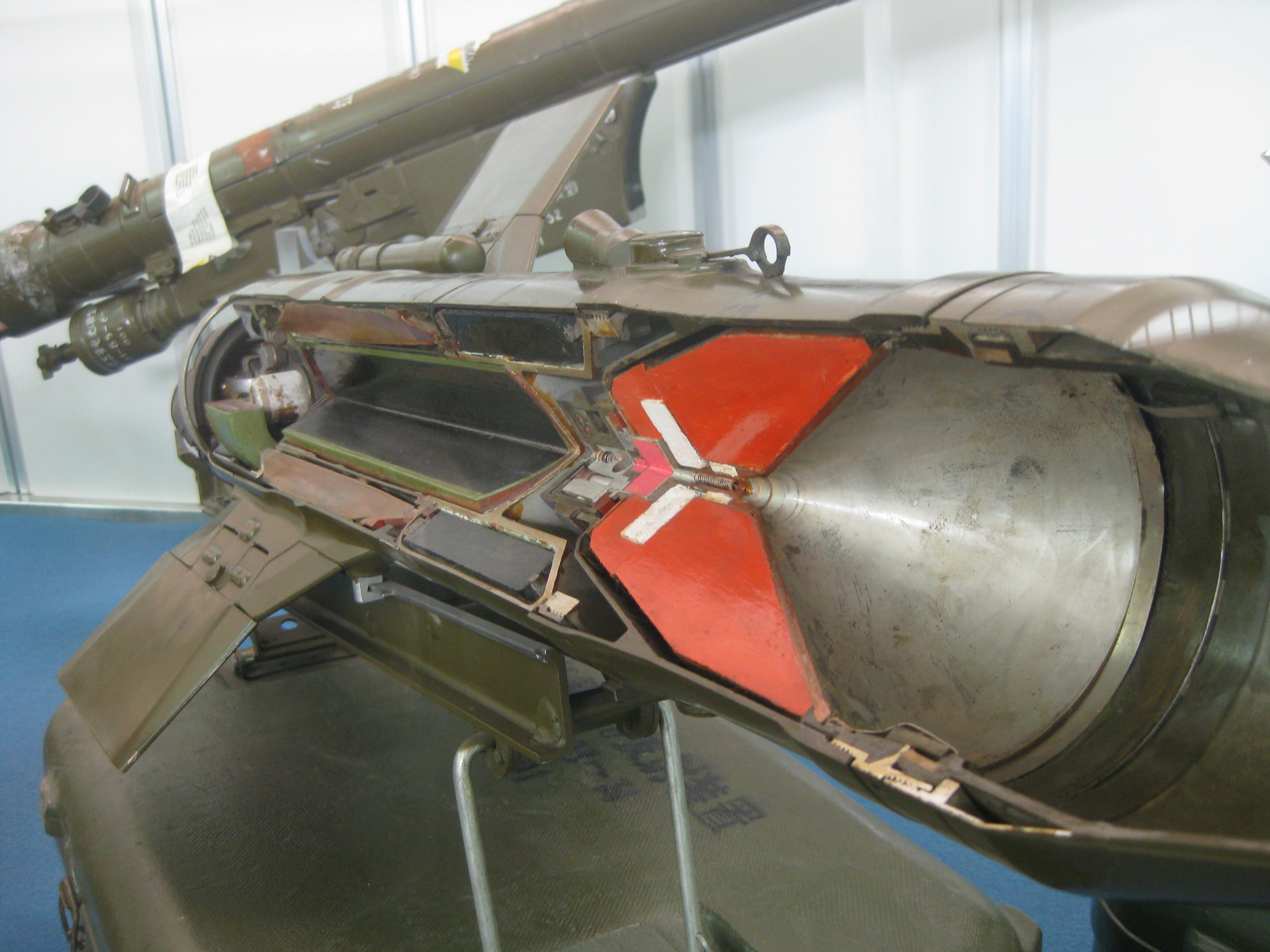 A anti-tank missile cutaway in the Military Museum of the Chinese People's Revolution.